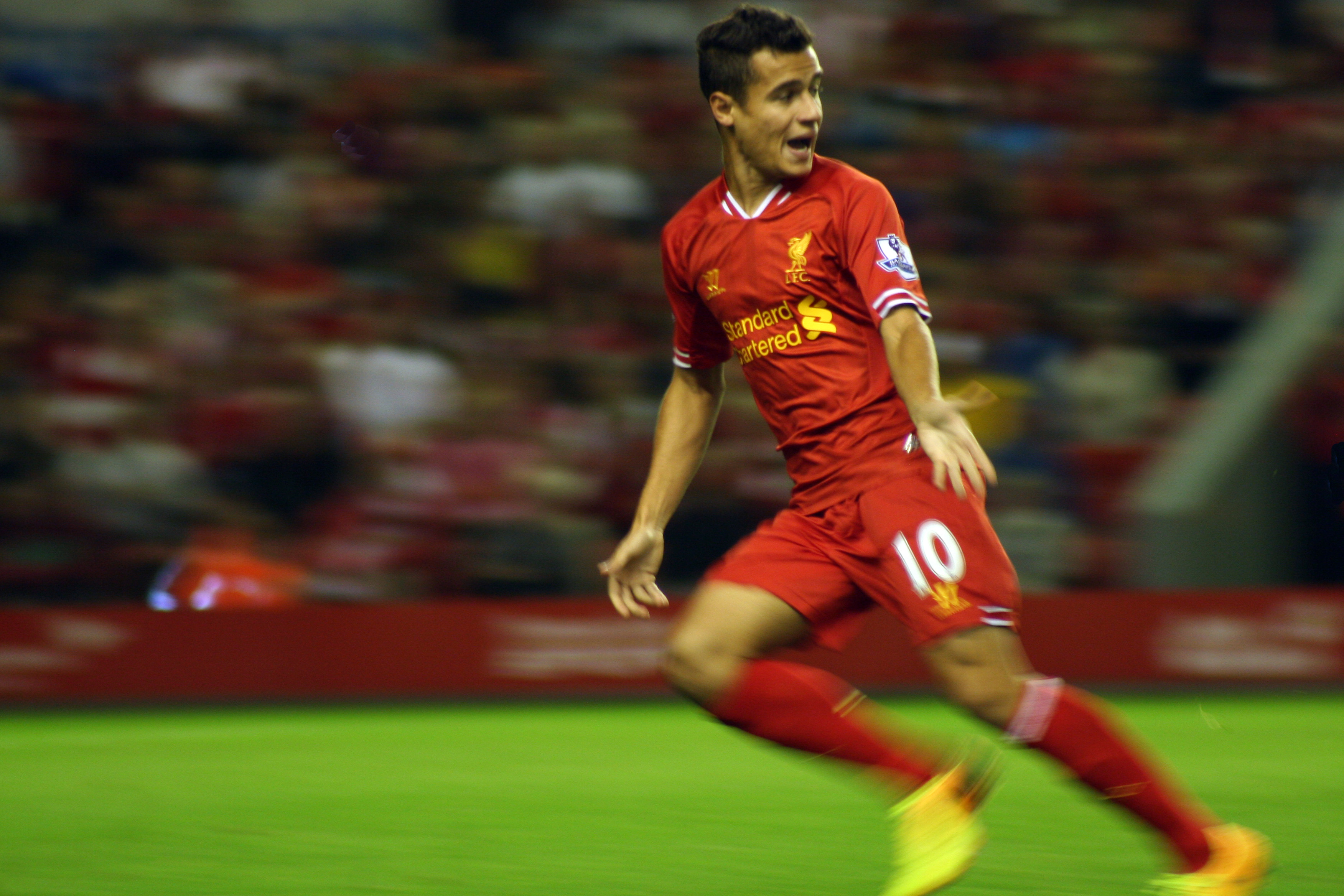 Phillipe Coutinho playing for Liverpool in 2013